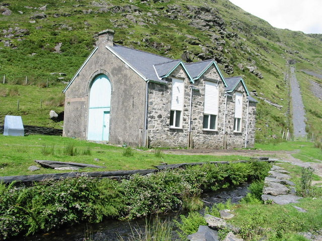 Blaencwm power station Built as a hydro-electric station to power Croesor quarry which is high on the hillside to the SE, it was for a while an outdoor centre but is a hydro station again now, suppling power to the national grid.